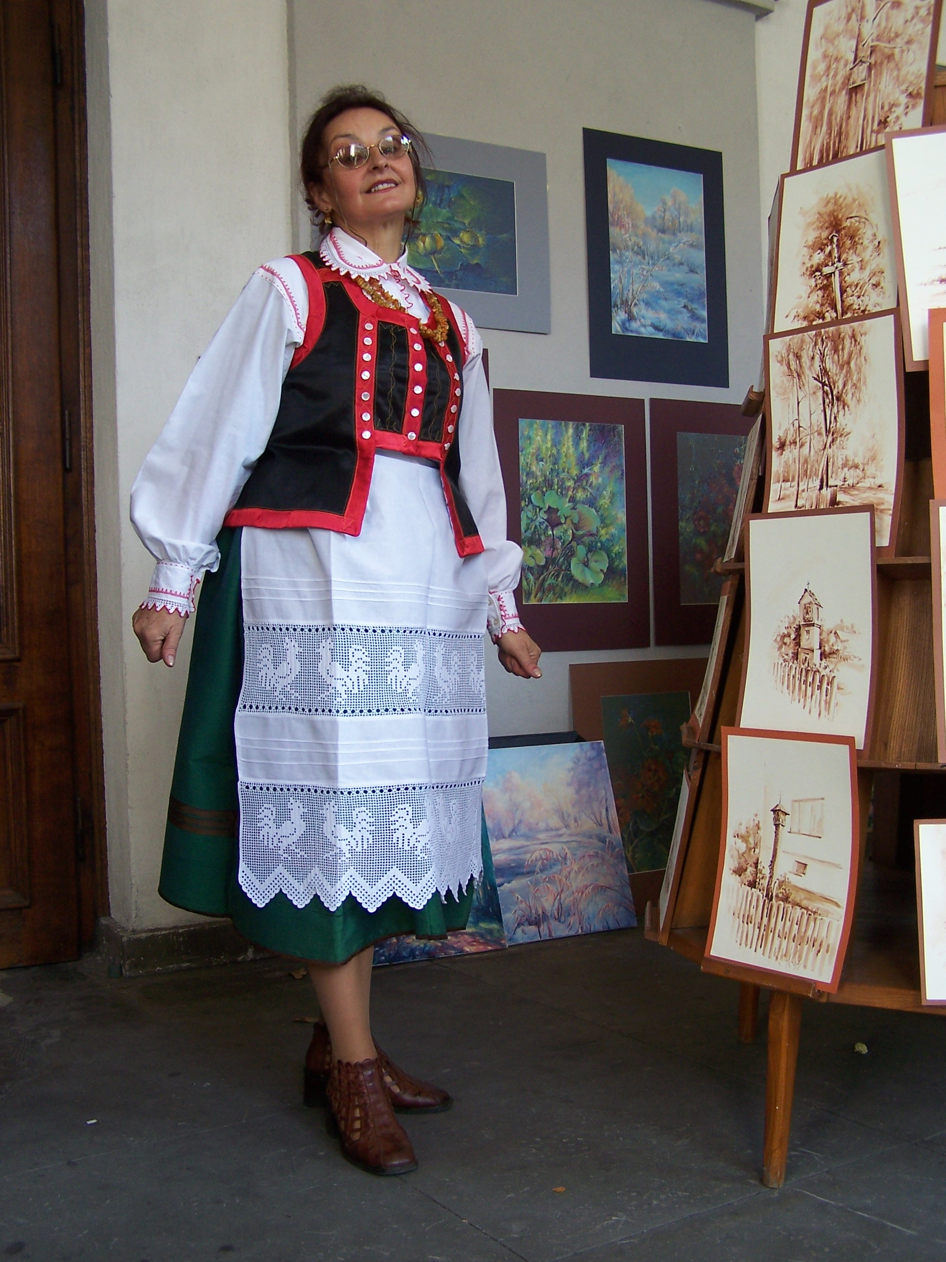 Teresa Piórkowska-Ciepierska, painter, Green Kurpie dress